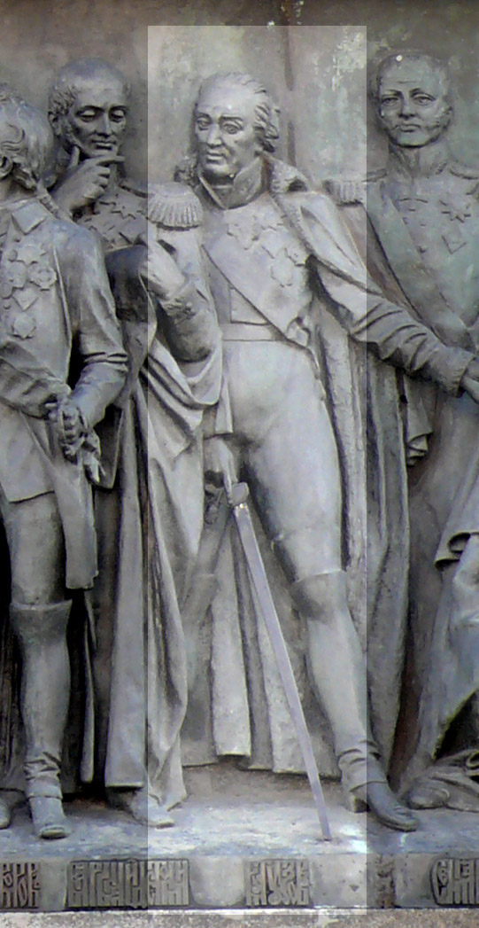 Mikhail Kutuzov on the Monument «Millennium of Russia» in Veliky Novgorod